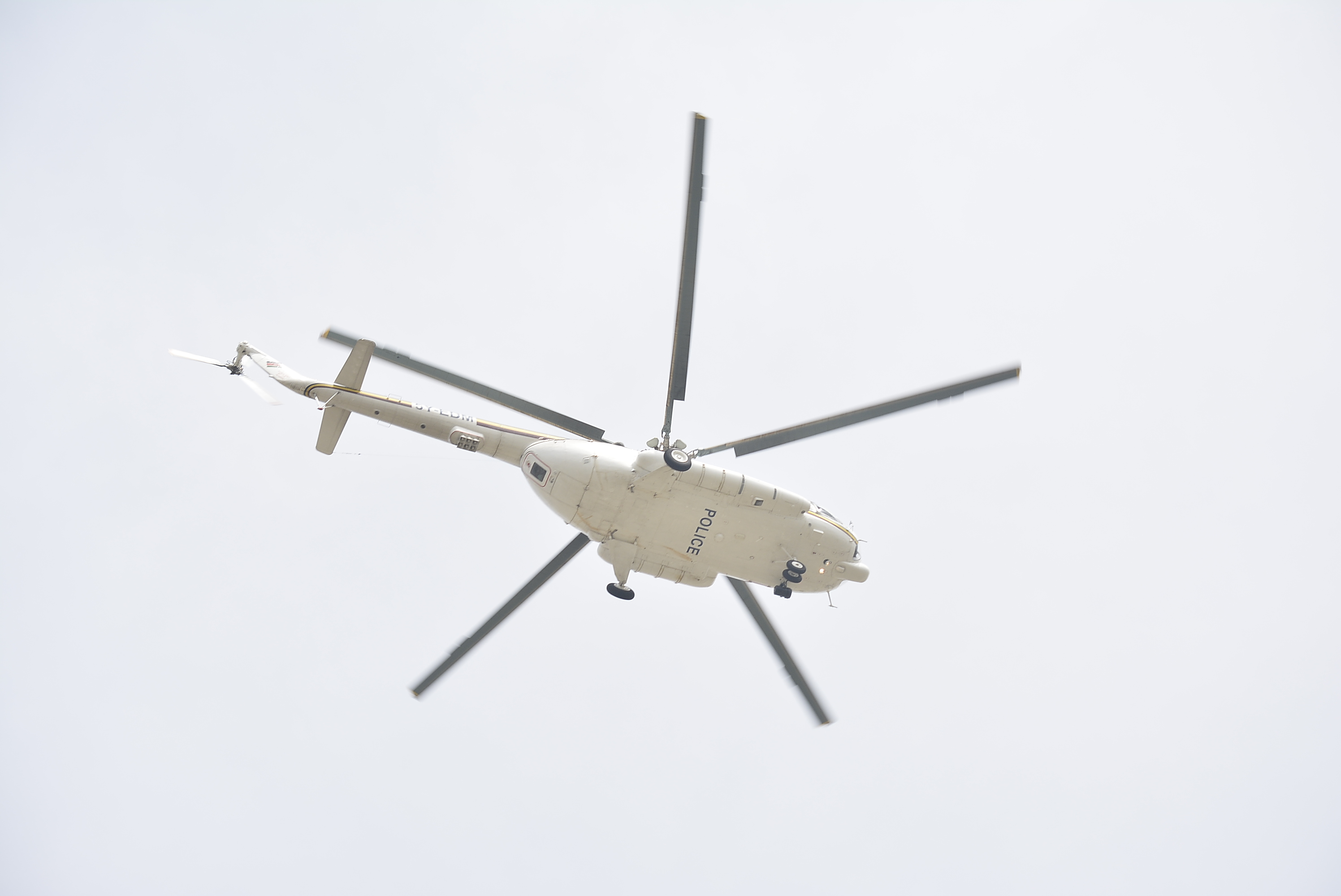 This is an image with the theme "Africa on the Move or Transport" from: Kenya